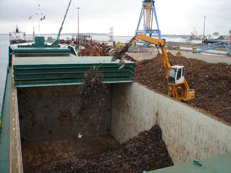 Dutch 4,522 DWT Mini-bulker Arklow Rally loading scrap metal in Brest harbour. IMO Number: 9250414 MMSI Number: 244037000 Callsign: PBEG Length: 90 m Beam: 14 m